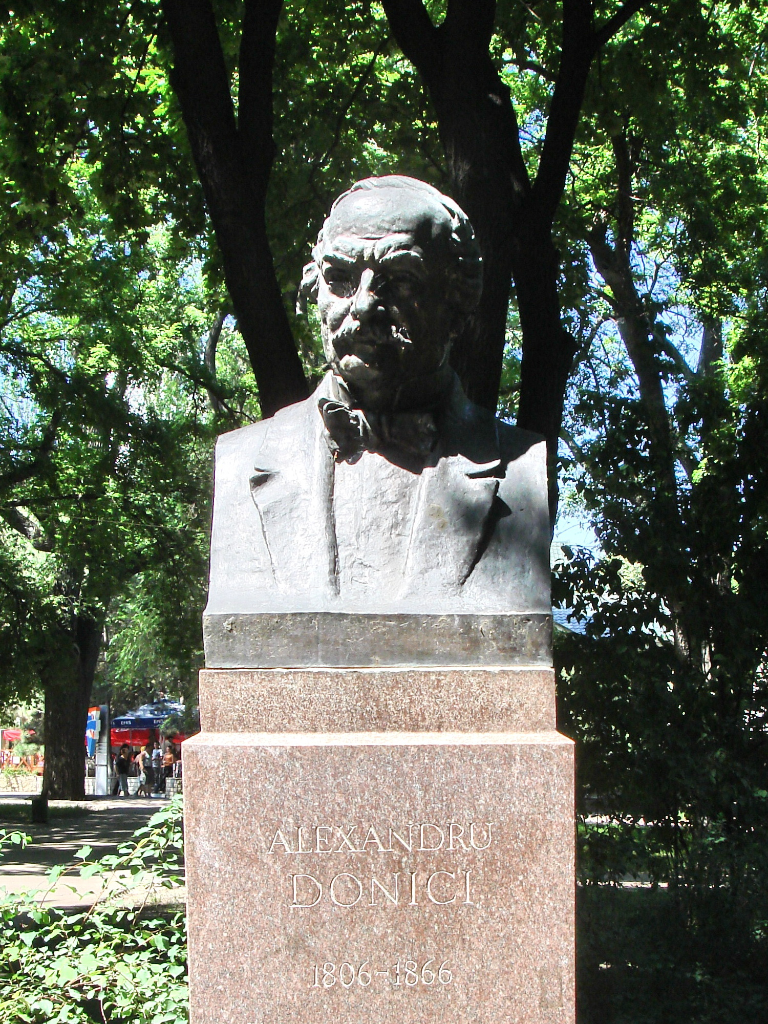 Alecu Donici by Ioan Cheptănaru (1957) - Alley of Classics, Chișinău, Moldova